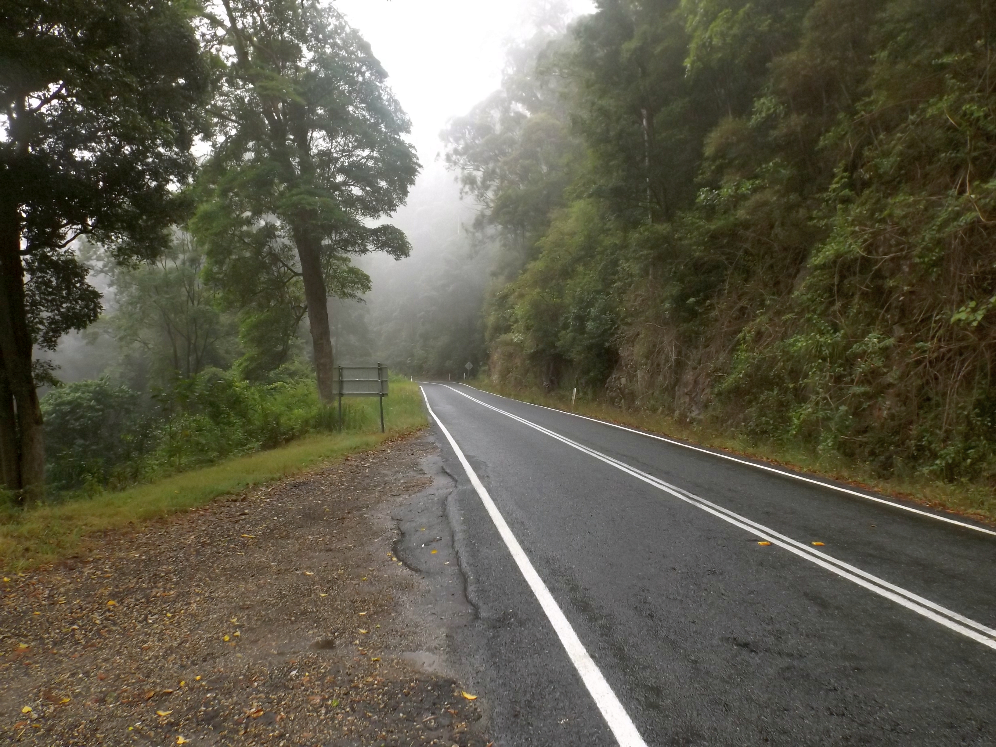 Photo of Springbrook Road at Springbrook, City of Gold Coast, Queensland, Australia.